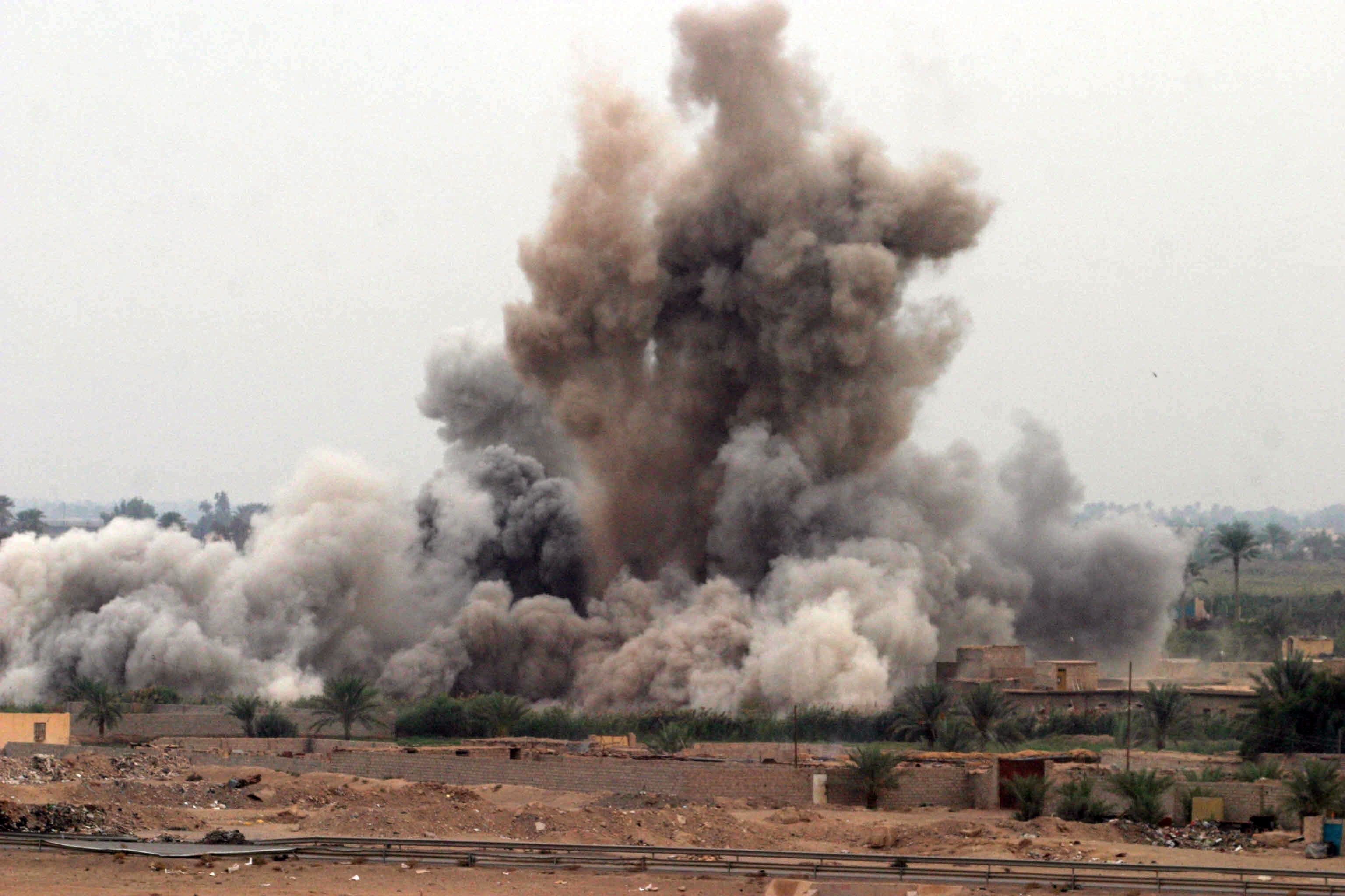 Fallujah, Iraq (Nov. 8, 2004) - An air strike is called in on a suspected insurgent hideout at the edge of Fallujah, Iraq by U.S. Marines assigned K Company, 3rd Battalion, 5th Marine Regiment, 1st Marine Division, during the opening hours of Operation Phantom Fury. 1st Marine Division, in support of Operation Iraqi Freedom (OIF), is engaged in Security and Stabilization Operations in the Al Anbar Province of Iraq. U.S. Marine Corps photo by Lance Cpl. James J. Vooris (RELEASED)